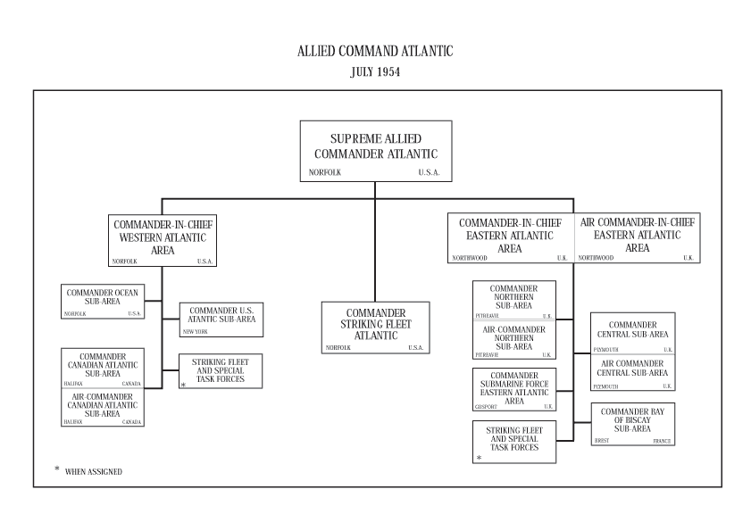 Organization Chart of NATO's Allied Command Atlantic (ACLANT), circa 1954